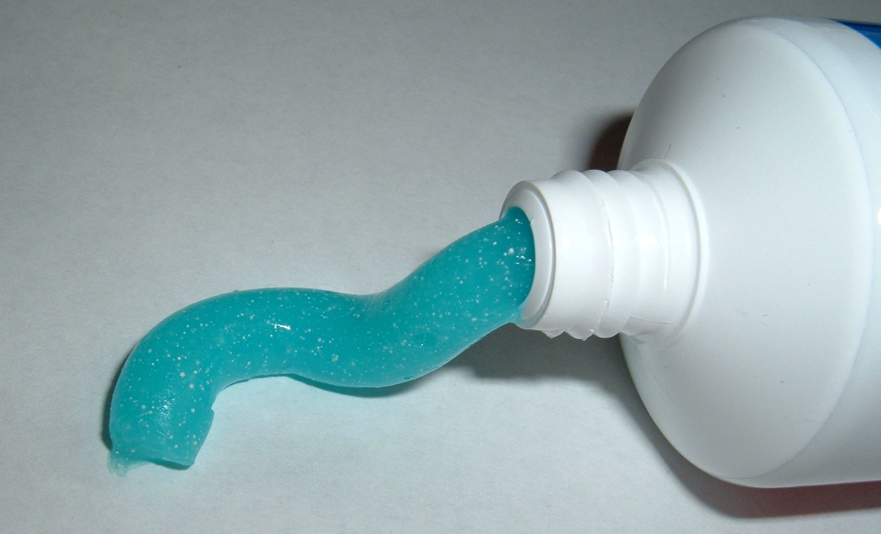 Crest MultiCare Whitening toothpaste